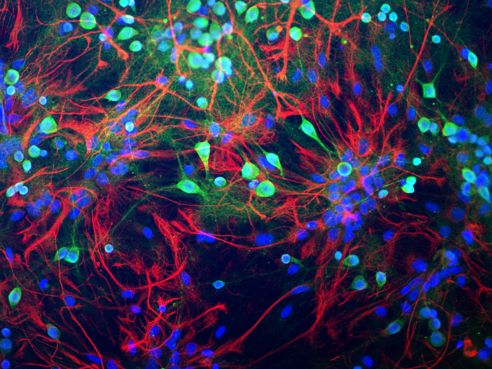 Neurons from rat brain tissue stained green with antibody to ubiquitin C-terminal hydrolase L1 (UCH-L1) which highlights the cell body strongly and the cell processes more weakly. Astrocytes are stained in red with antibody to the GFAP protein found in cytoplasmic filaments. Nuclei of all cell types are stained blue with a DNA binding dye. Antibodies, cell preparation and image generated by EnCor Biotechnology Inc.